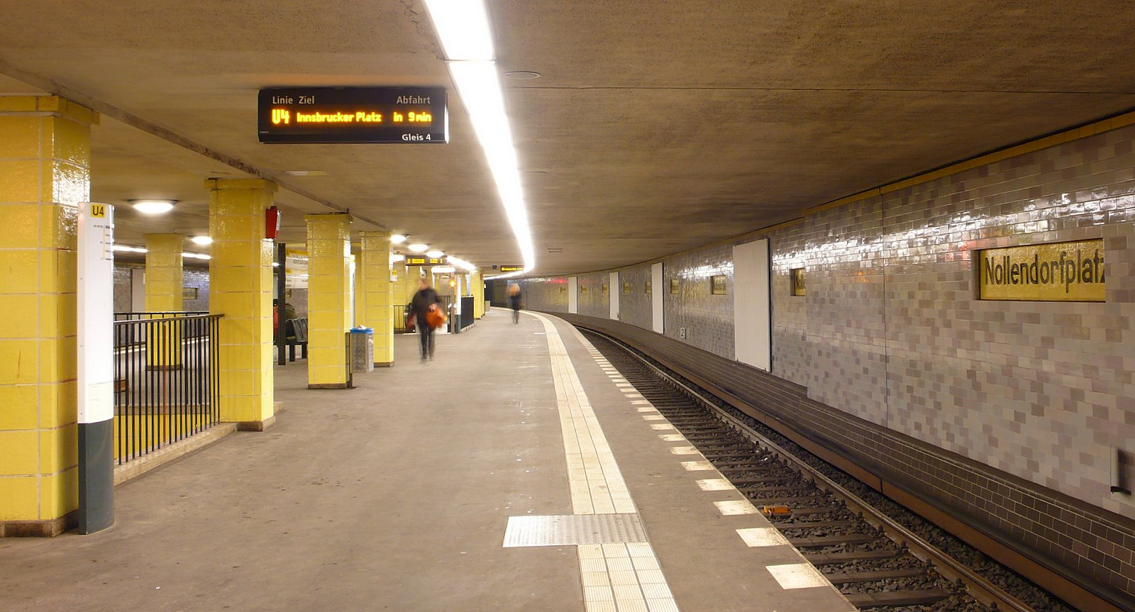 Nollendorfplatz U4 subway